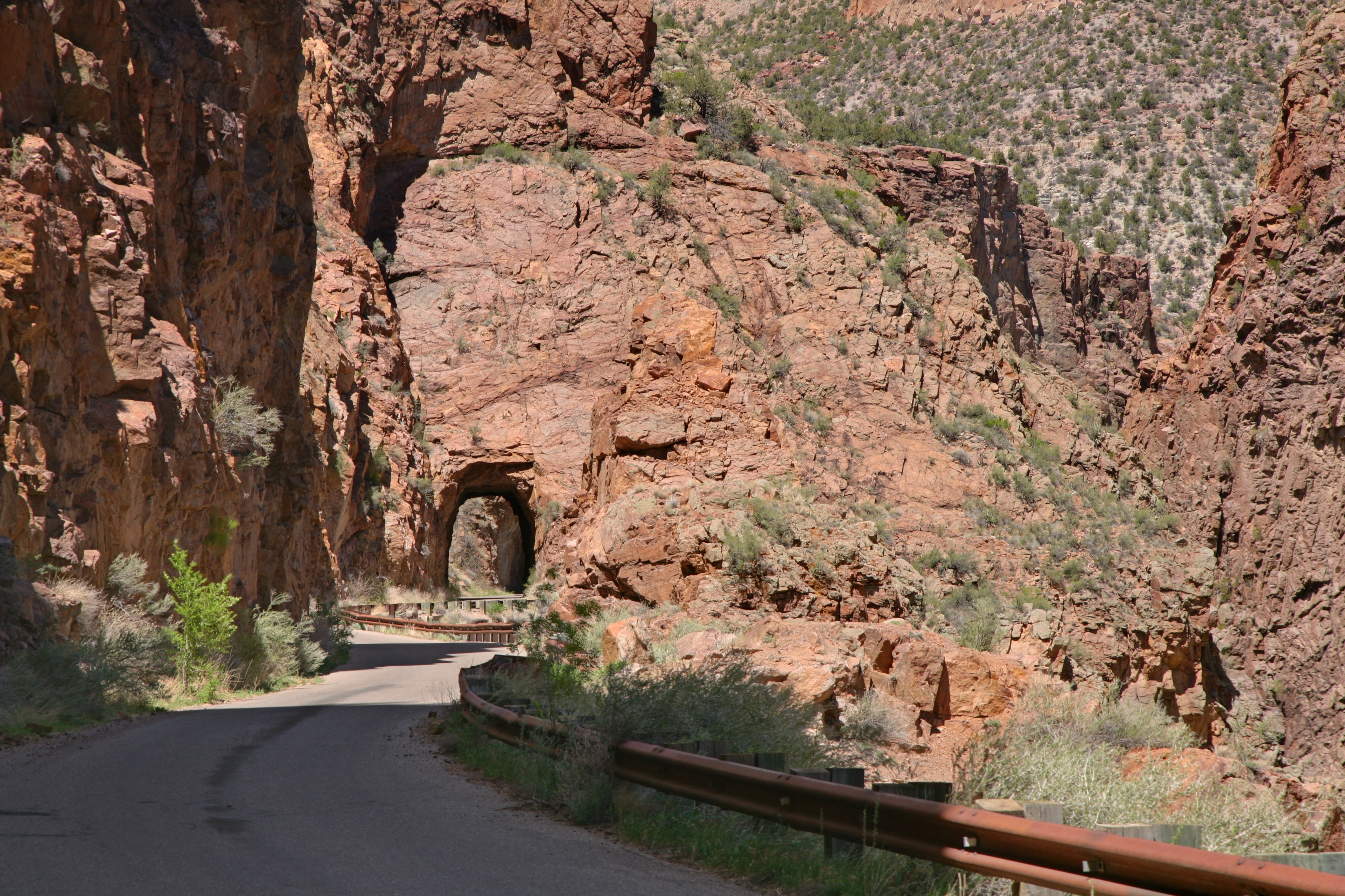 Gilman tunnels in the Jemez Mountains in Santa Fe National Forrest.